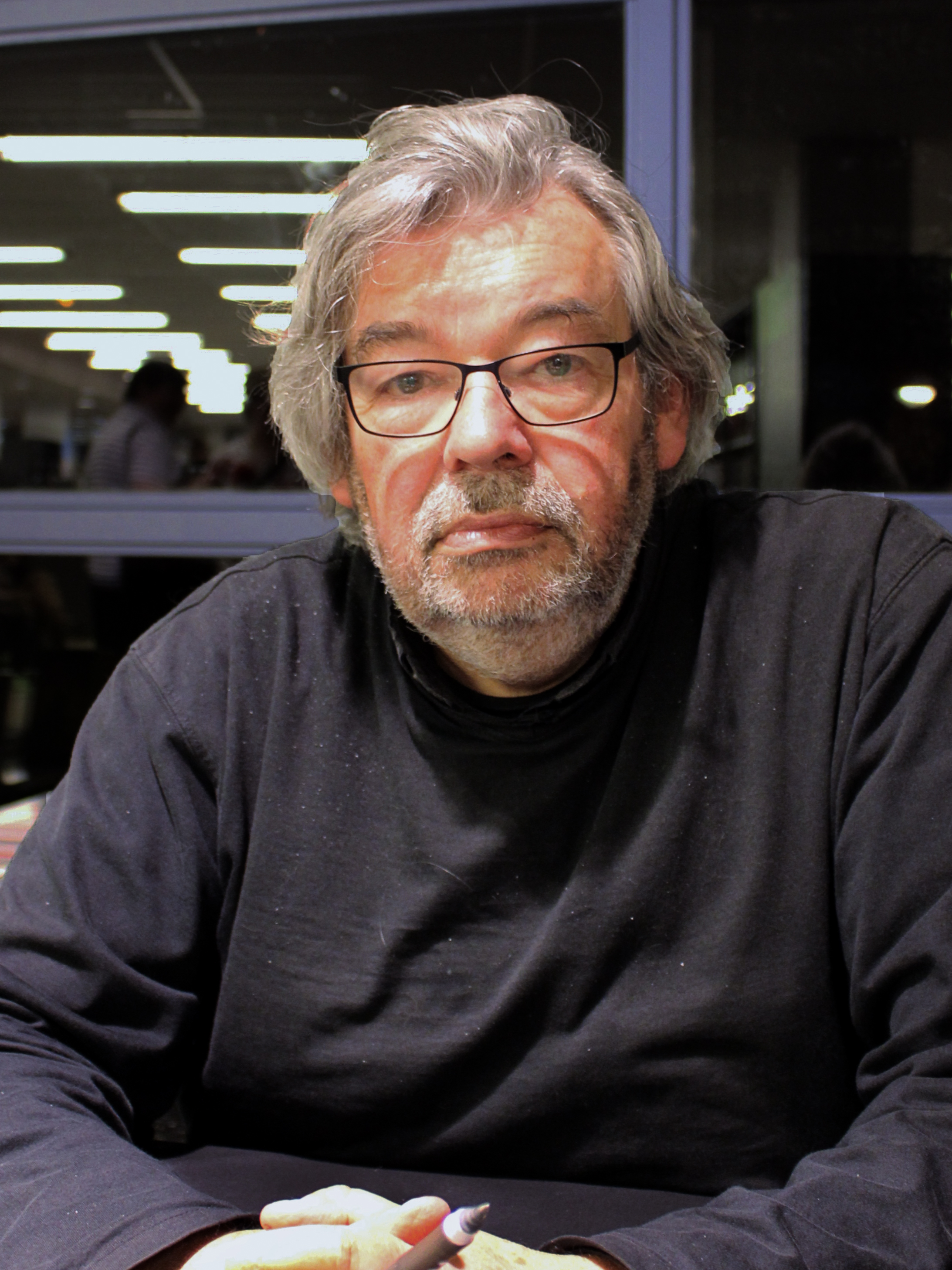 Maarten van Rossem, former history professor at the Universiteit Utrecht